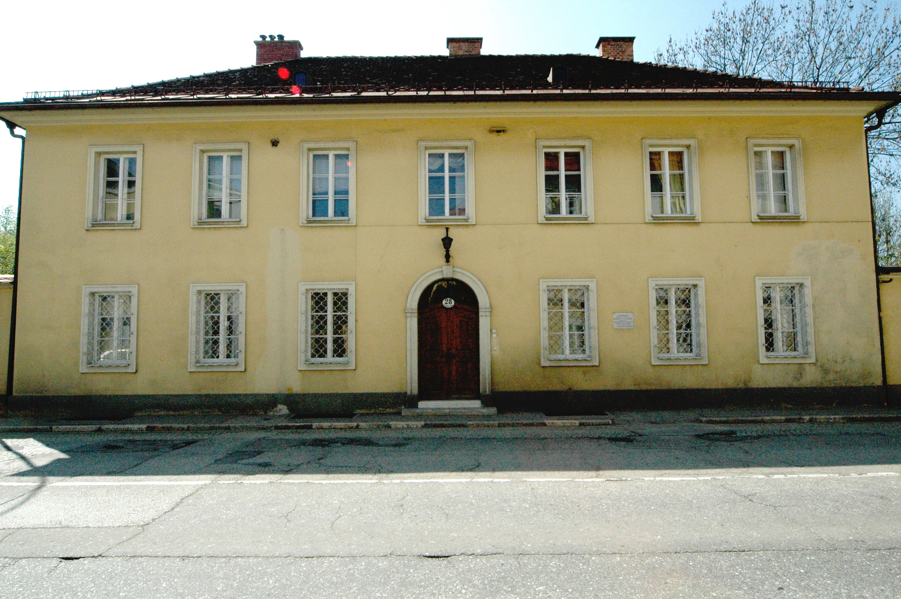 Last residence of Markus Pernhart on St. Veiter Ring #28, Klagenfurt, Carinthia, Austria